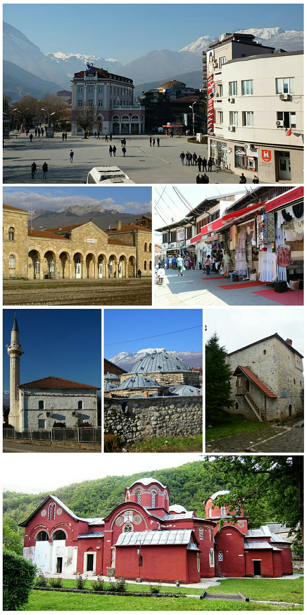 Peć- photomontage (Peć city center, Train station of Peć, Bazaar of Peć, Mosque Clock Tower, The Peć Hamam- turkish public bath, The Stone tower of Goskaj, Patriarchal Monastery of Peć)